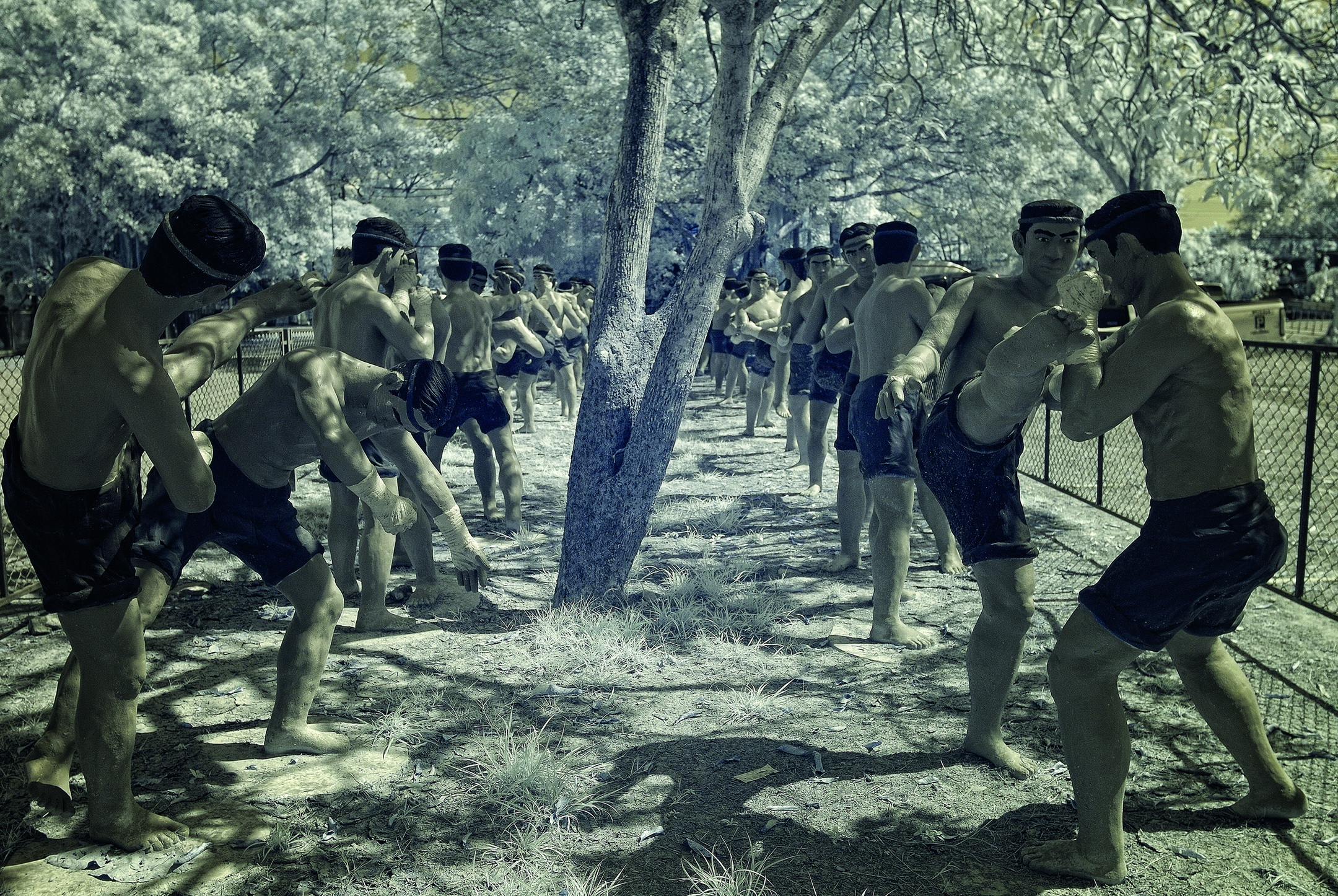 Located in Bang Kung subdistrict, Bang Khonthi district, this area was once set up as a military camp called “Kai Bang Kung” for troops from southern provinces to fight against Burmese army. After the fall of the Ayutthaya kingdom, King Taksin restored this camp to base Chinese soldiers, and renamed it “Kai Chin Bang Kung”. In order to honour these heroes, dozens of life-size statues in different Muay Thai moves are on display. Also, a monument of King Taksin, the Great is situated at the front. Of note the temple itself features the ubosot lodged in roots of large sacred Bodhi trees and few species of Banyan trees. When viewed from the outside, it is clearly evident that these roots have preserved the structure of the temple. As a result, this temple is labelled as one of the “Unseen Thailand”. Inside the ubosot, there is a large Buddha statue “Luang Po Phuttha Maneenil”, commonly known as “Luang Por Dam, in subduing mara position created in the late Ayuttha period”, and mural paintings, depicting the Lord Buddha’s past life.